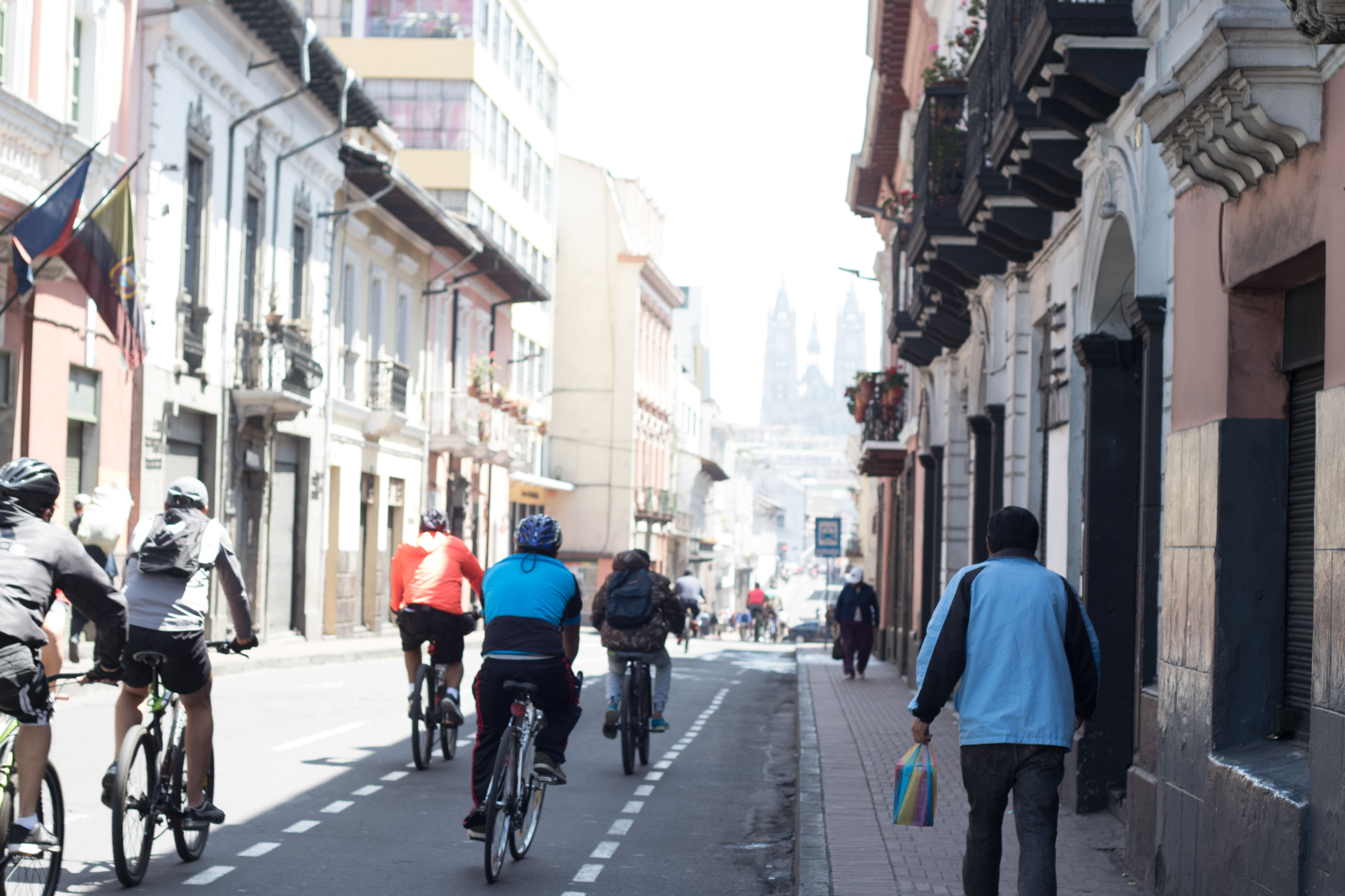 Ciclopaseo towards Basílica del Voto Nacional